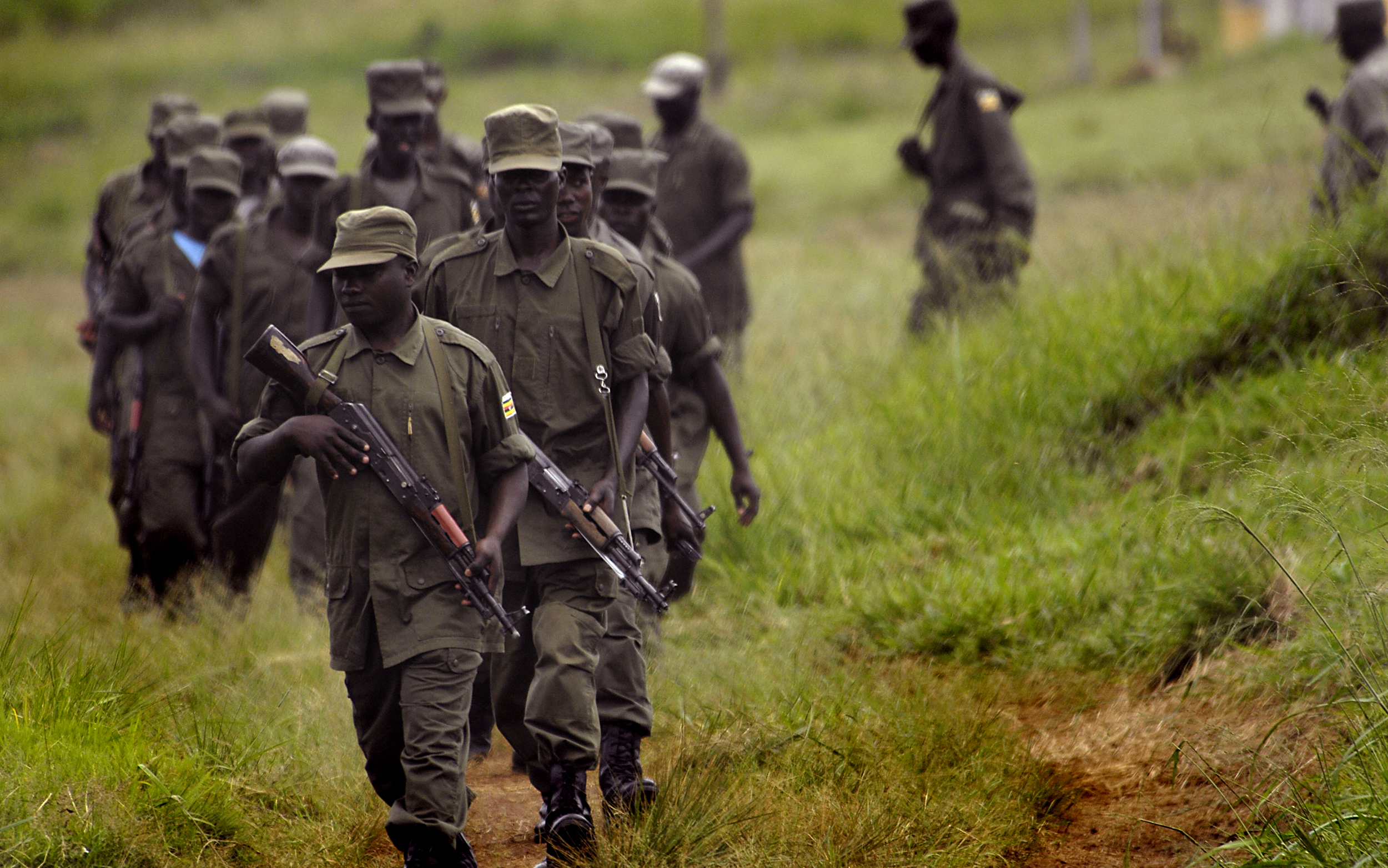 Ugandan army soldiers walk single file back from their barracks after a lunch break to begin another session of a land navigation